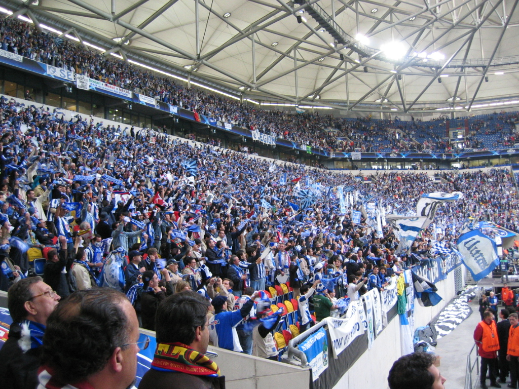 FC Porto supporters at the Gelsenkirchen Arena AufSchalke. author: Joao Castro location:Genselkirchen